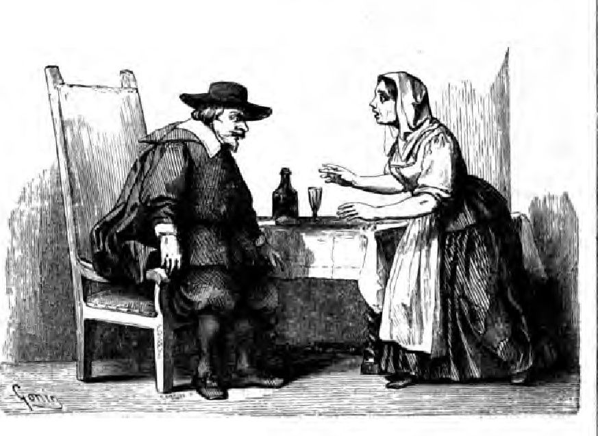 The most famous Italian historical romance,and the masterpiece of Alessandro Manzoni.